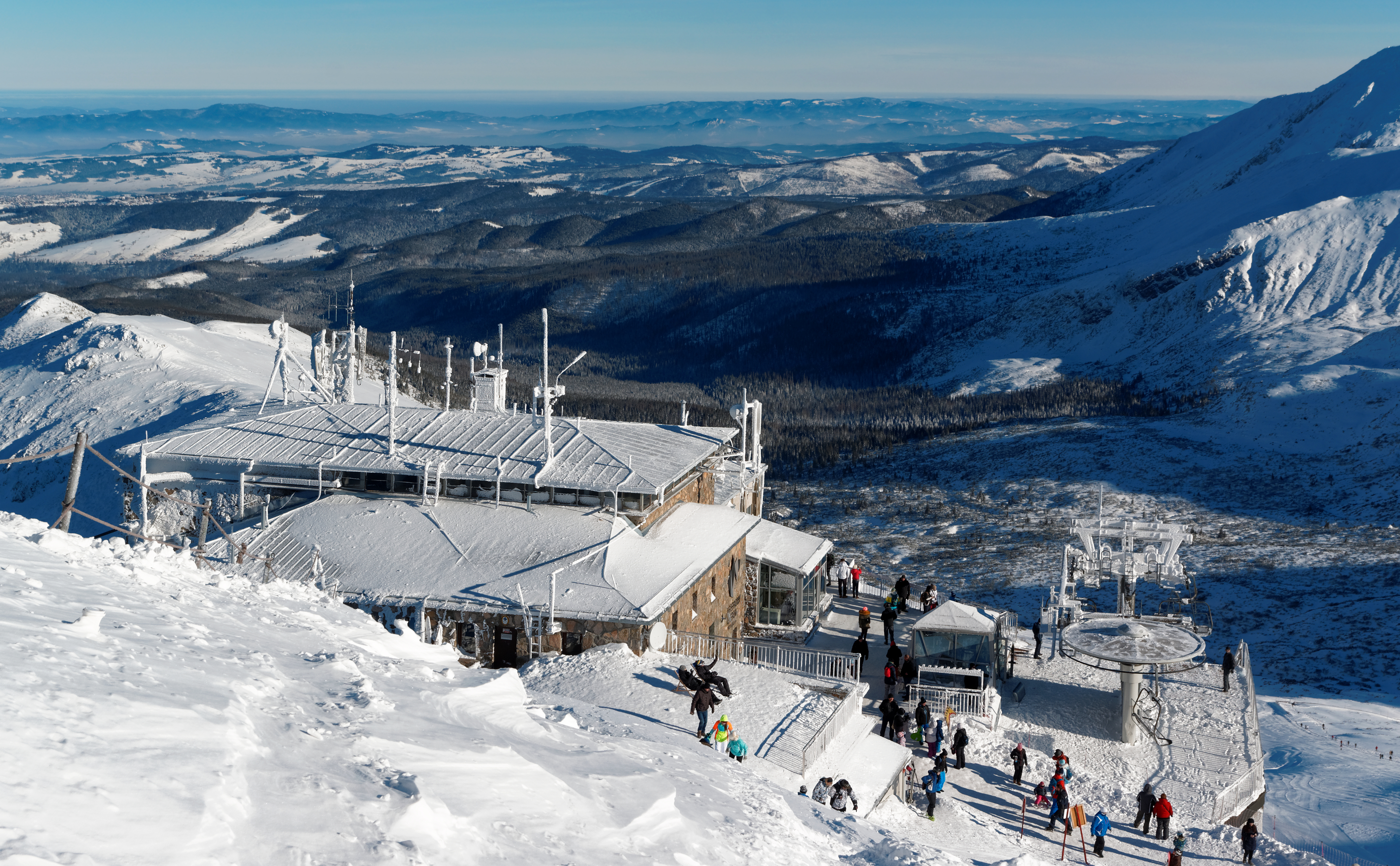 Cableway station at Kasprowy Wierch